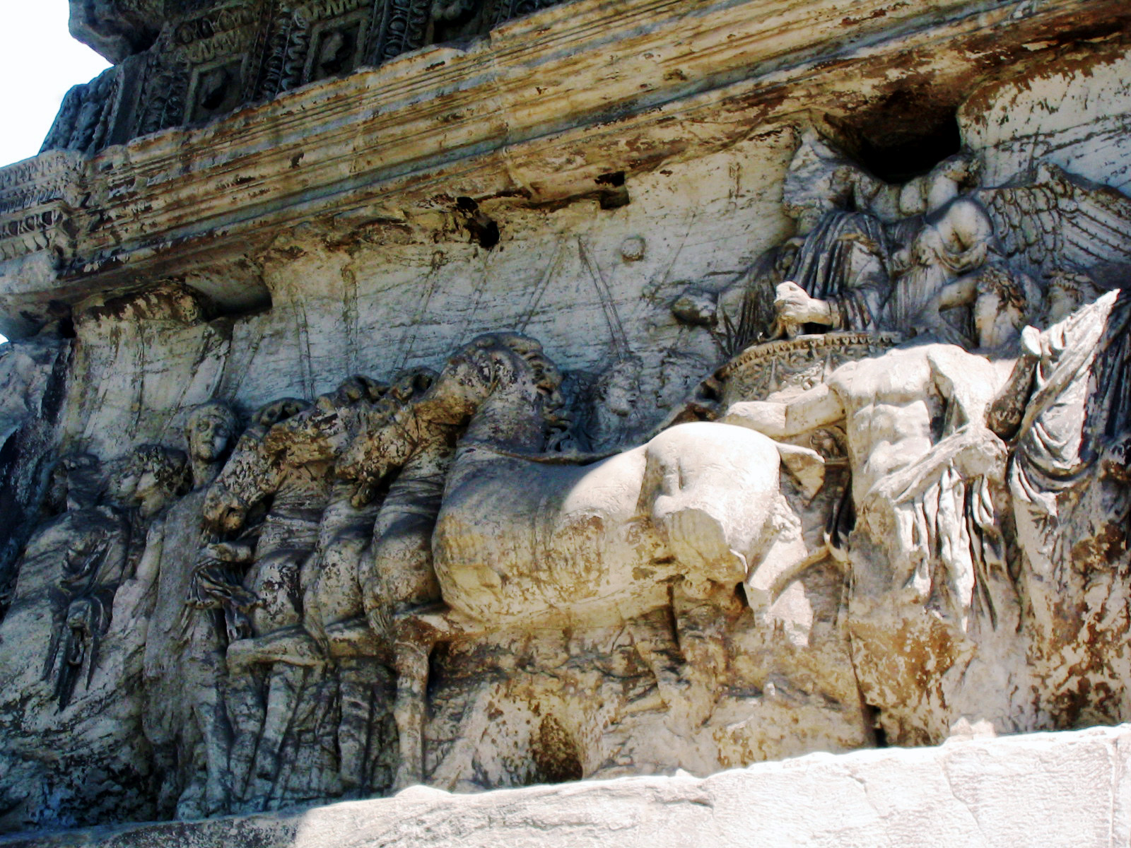 This relief from the Arch of Titus in Rome shows the emperor Titus in his chariot (right), behind his troops in the triumphal parade, accompanied by a (now headless) nude youth representing the citizens of Rome.Arch of Titus relief 1